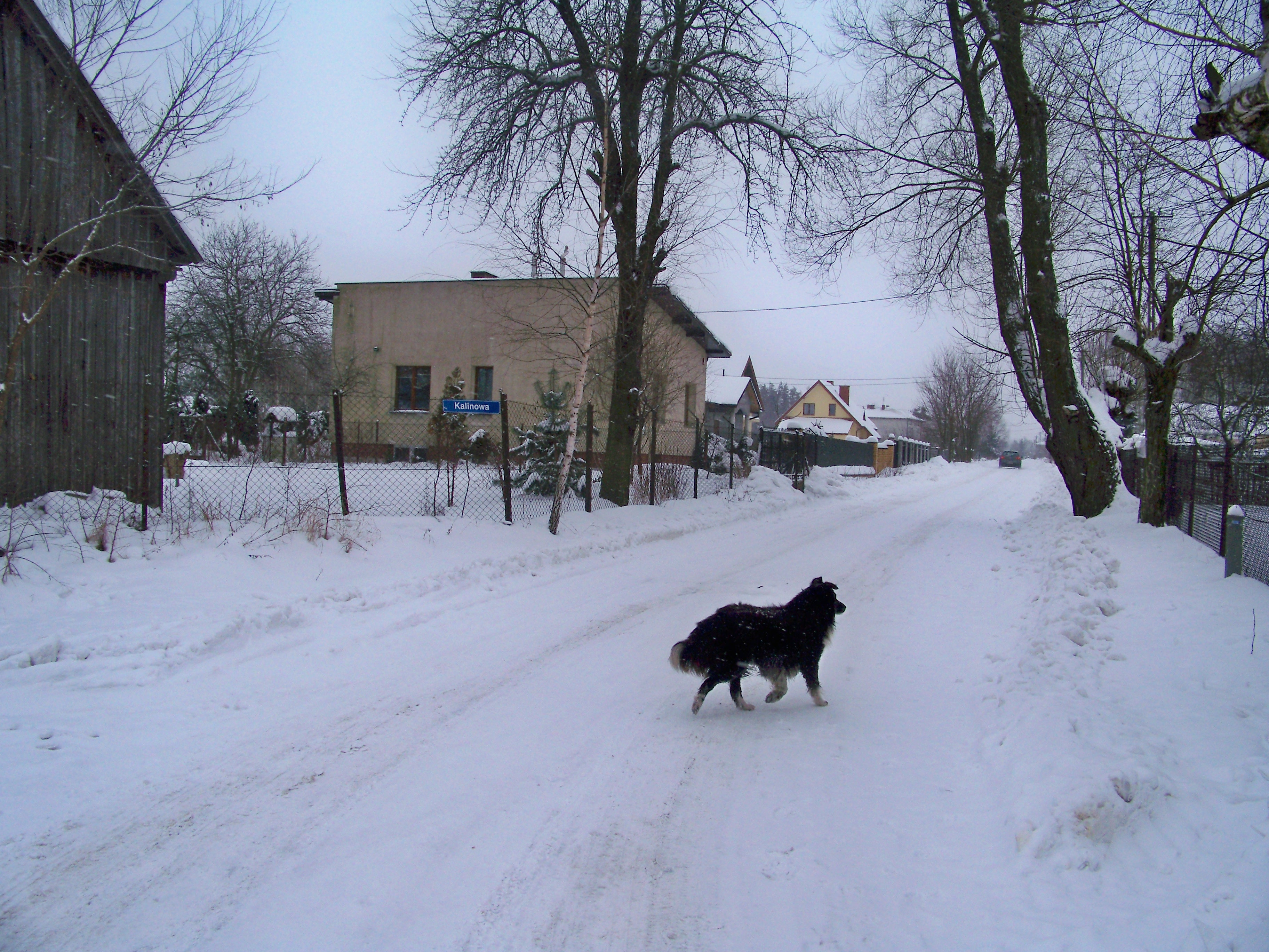 wsola, winter, street, snow